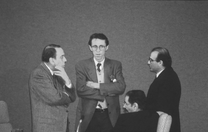 Asamblea Constituyente